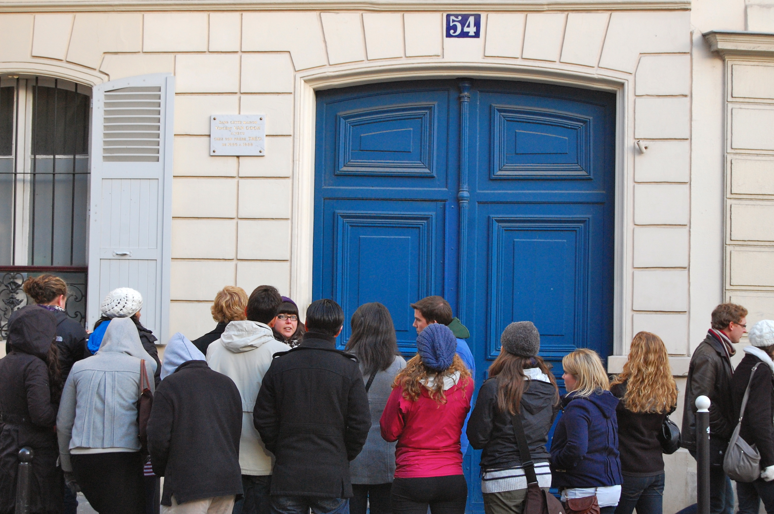 54 rue Lepic: Theo and Vincent Van Gogh's Paris house.